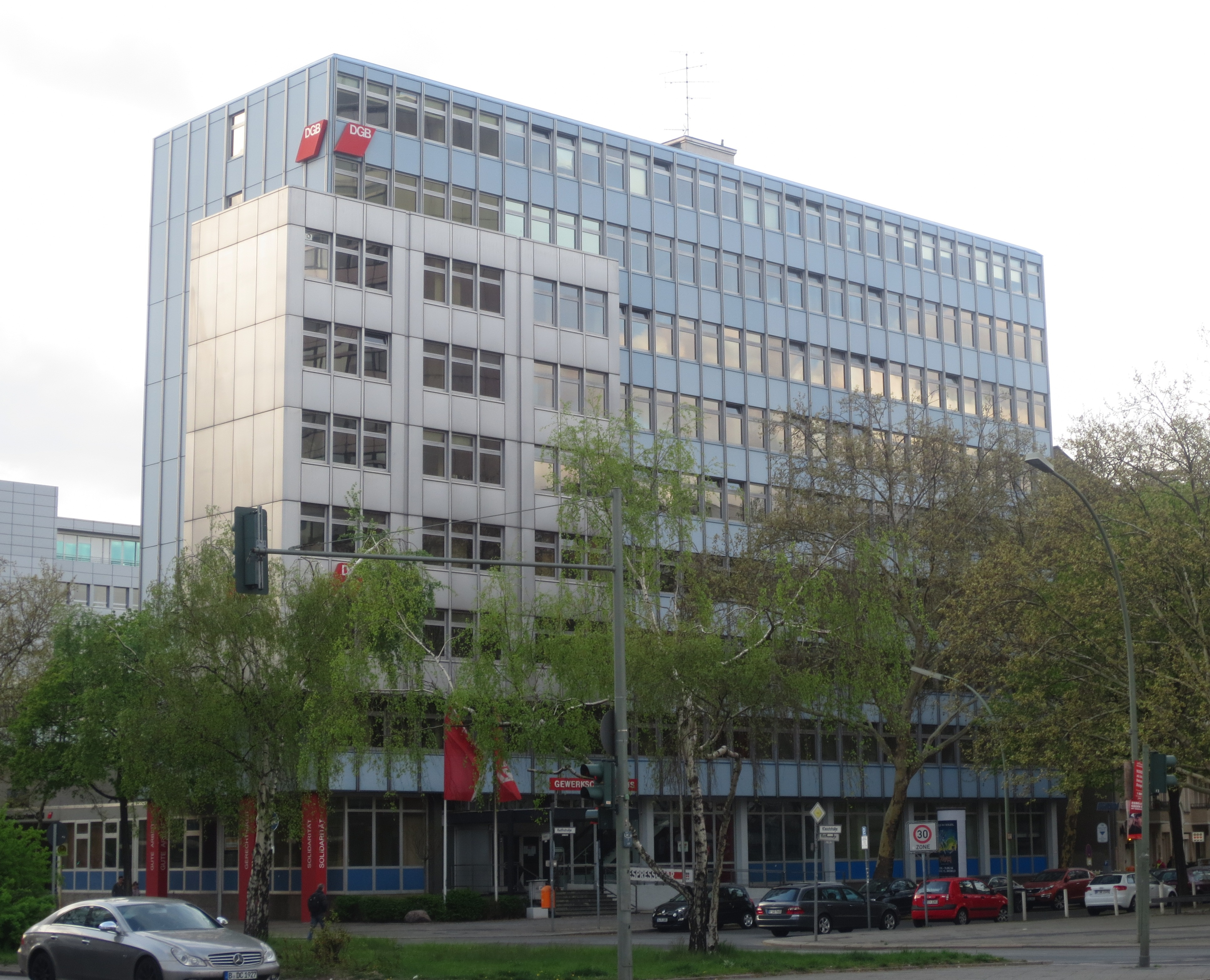 Headquarters of the German Labour Union Deutsche Gewerkschaftsbund. Berlin.